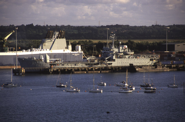 Marchwood Military Port Photographer position is approximate but I don't think I could possibly have been in the same square. The nearest vessel is L3027 Sir Geraint a Landing Ship Logistical (LSL). Behind is Sea Centurion.